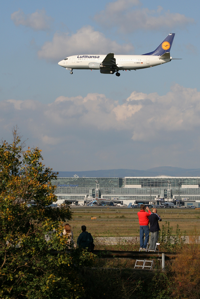 Photograph of a Lufthansa Boeing 737-300 (D-ABEW, "Detmold") at Frankfurt am Main